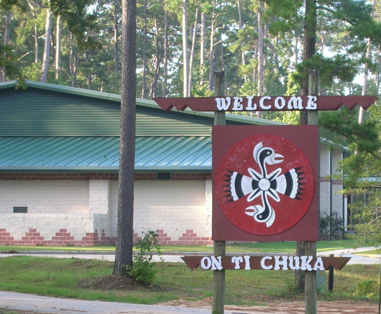 info Alabama-Coushatta Reservation welcome sign The Alabama-Coushatta Reservation is east of Livingston, Texas, USA (in the Big Thicket area). The reservation is home to the Alabama and Koasati (Coushatta) Indians, which was formed after they were forced southward from current-day Alabama by the United States around the turn of the 17th century. Other Koasati live in Louisiana. About the symbol displayed on the welcome sign: twin water-fowls = 2 tribes, day/night, sky/earth, life/death, man/woman, beginning/end 2 wise ones egg/seed center = the creator 4 protruding diamond shapes = the four elements (air, water, earth, the sprout) swastika = four directions/seasons/phases of man 7 feathers on wise ones = 7 fires/pipes cultural numbers represented in symbol are 2, 4, 7, 49 References Alabama-Coushatta Tribe. (n.d.). Alabama-Coushatta Tribe of Texas. (Handout at tribal cultural center).